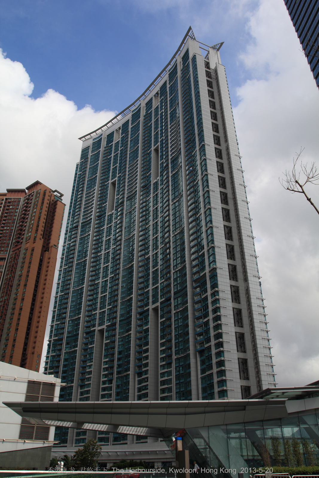 香港九龙 君临天下 The Harbourside